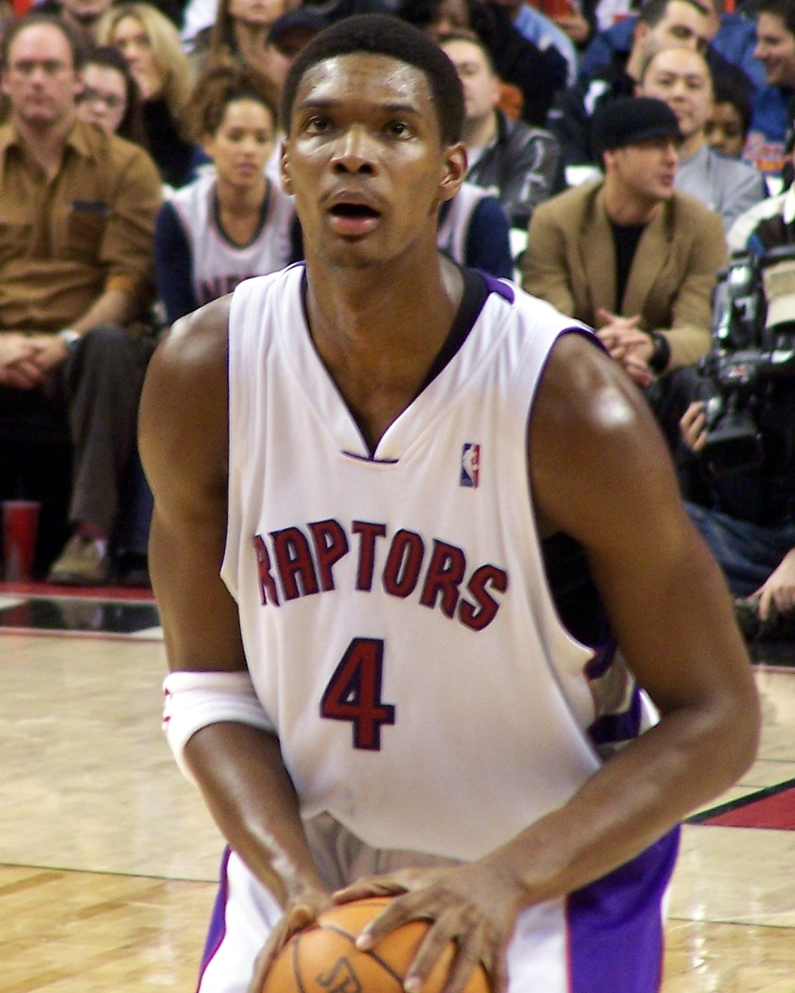 photo taken by flickr user The CJM. source is here: [1]